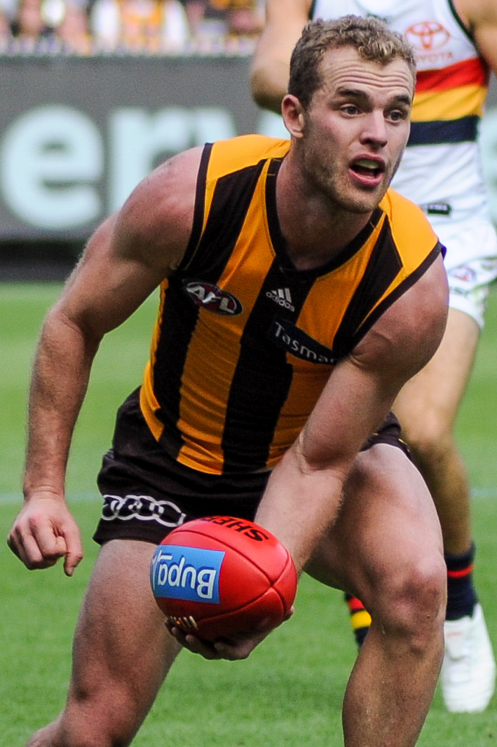 Tom Mitchell during the AFL round two match between Hawthorn and Adelaide on 1 April 2017 at the Melbourne Cricket Ground in Melbourne, Victoria.